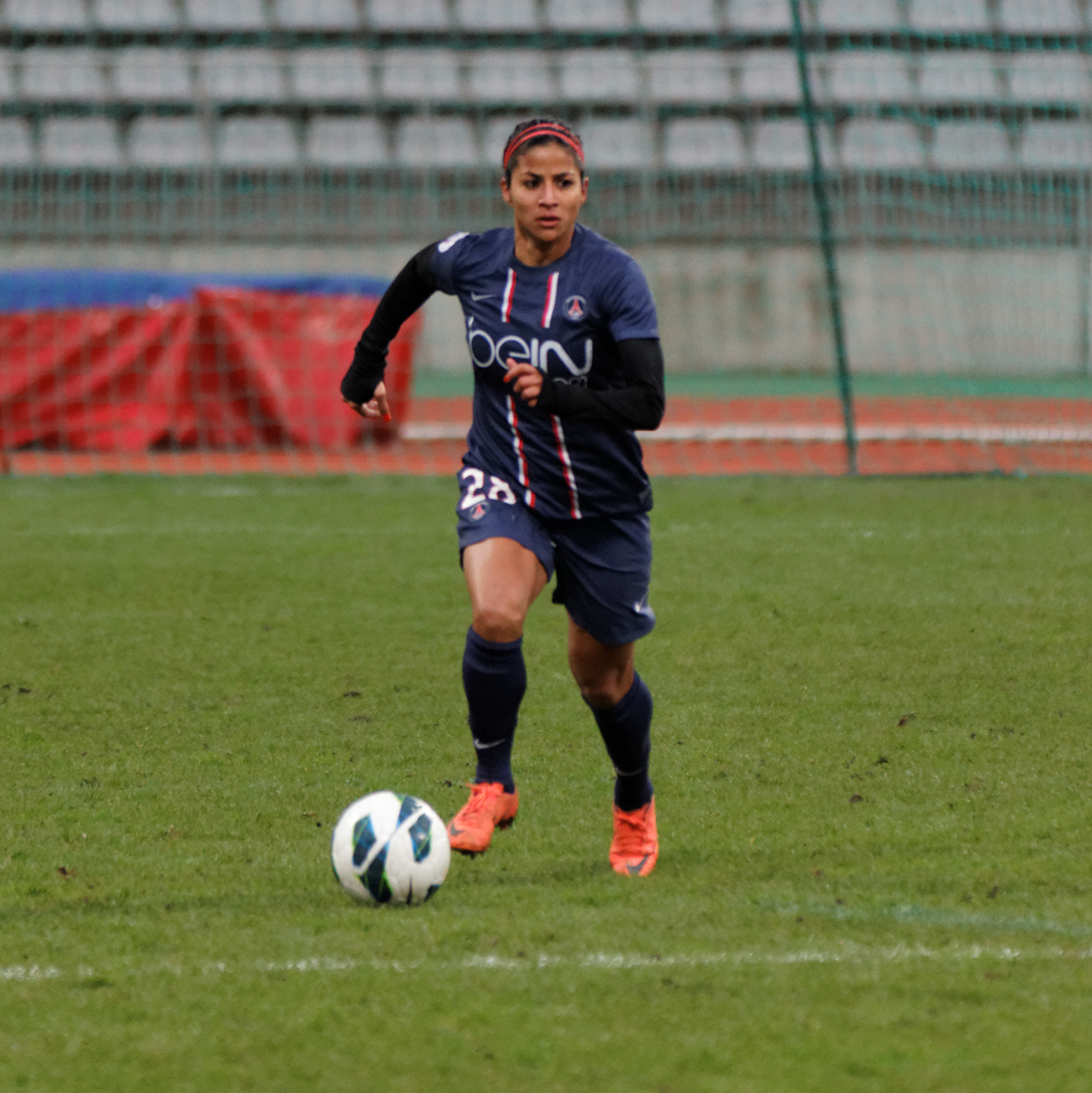 PSG-Montpellier, January 13th, 2013. Shirley Cruz Traña (PSG).